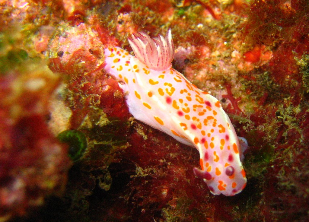 A Sweet Ceratosoma (Ceratosoma amoenum). Fish and Chips, South West Rocks, NSW